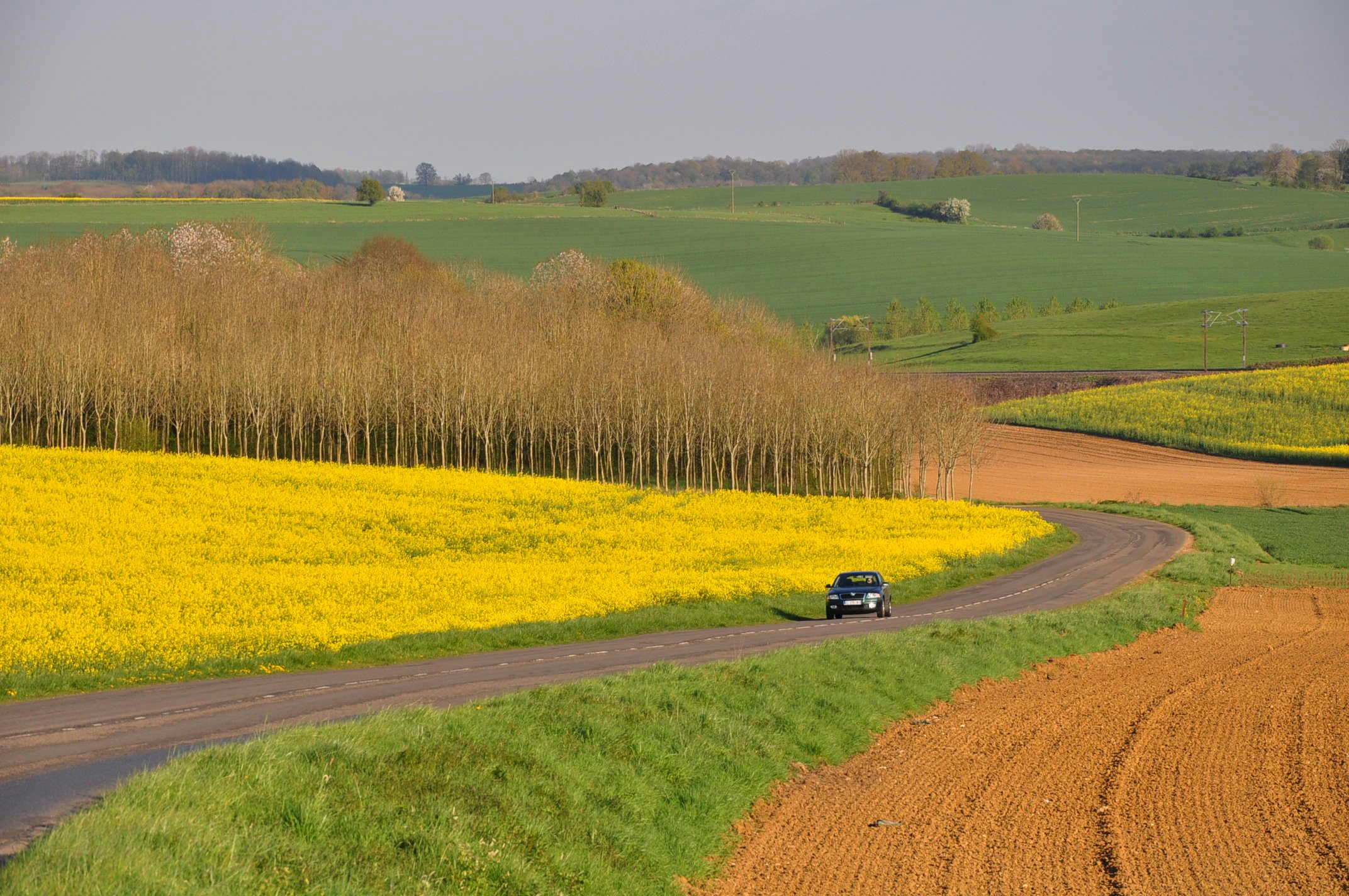 Road D978, about 1 mile west of Logny-Bogny (Ardennes department, northern France).